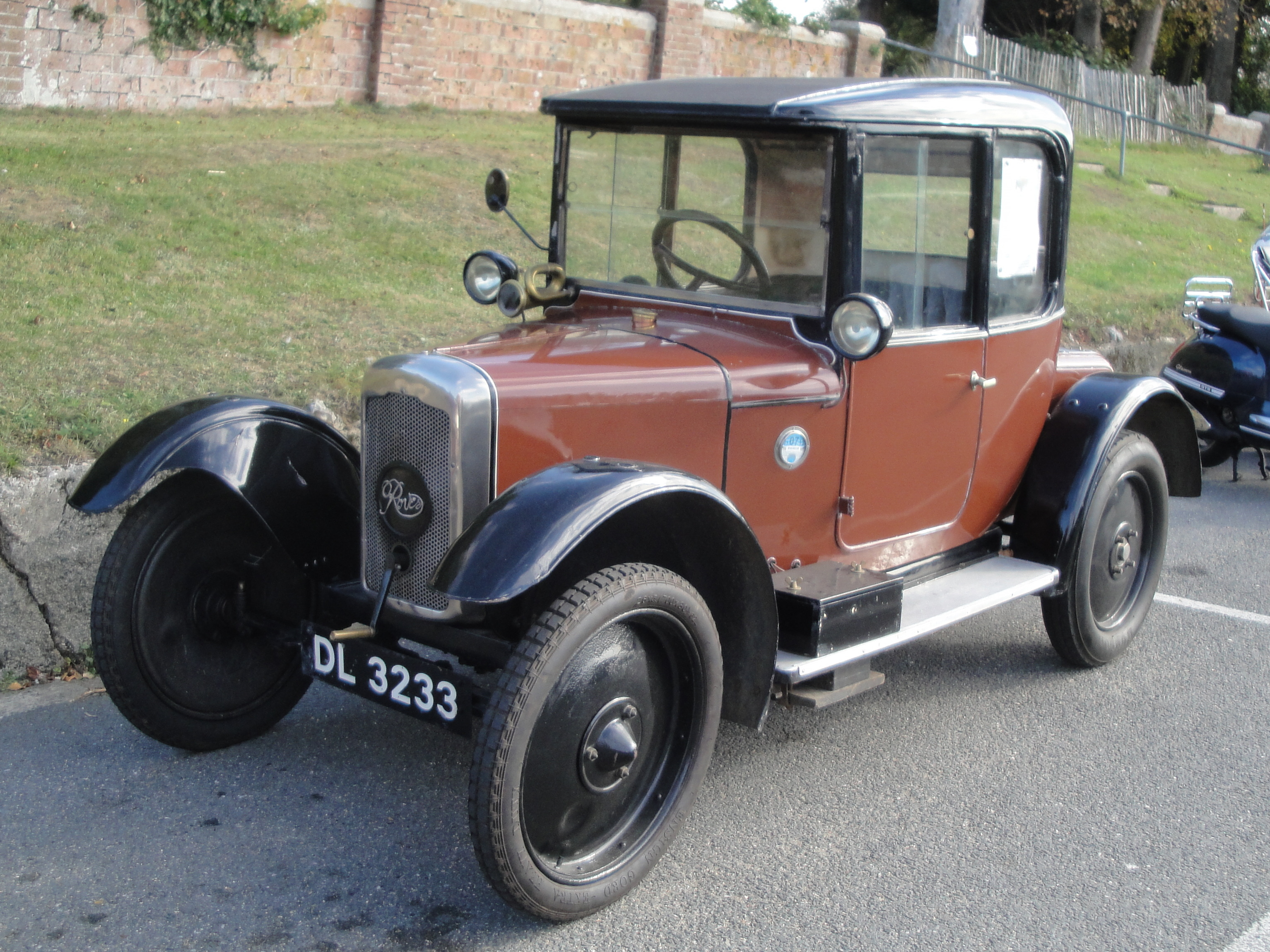 A Rover 8 (DL 3233), in Newport Quay, Newport, Isle of Wight for the Isle of Wight Bus Museum's October 2011 running day.